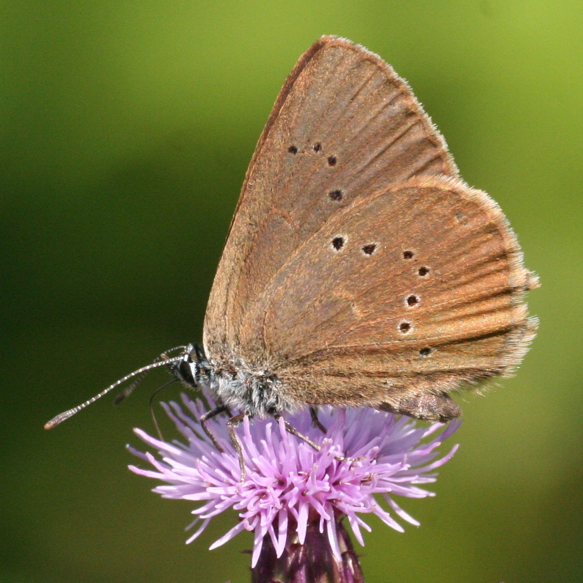 A Dusky Large Blue, photographed in Schwäbisch Hall-Wackershofen